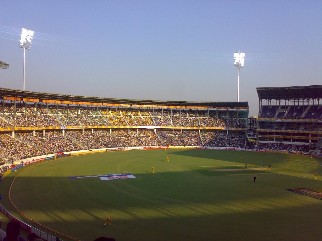 VCA,Nagpur